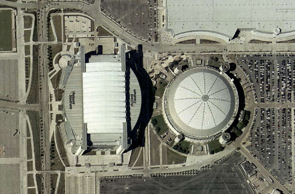 Reliant Astrodome (nasa world wind 1.3.5)